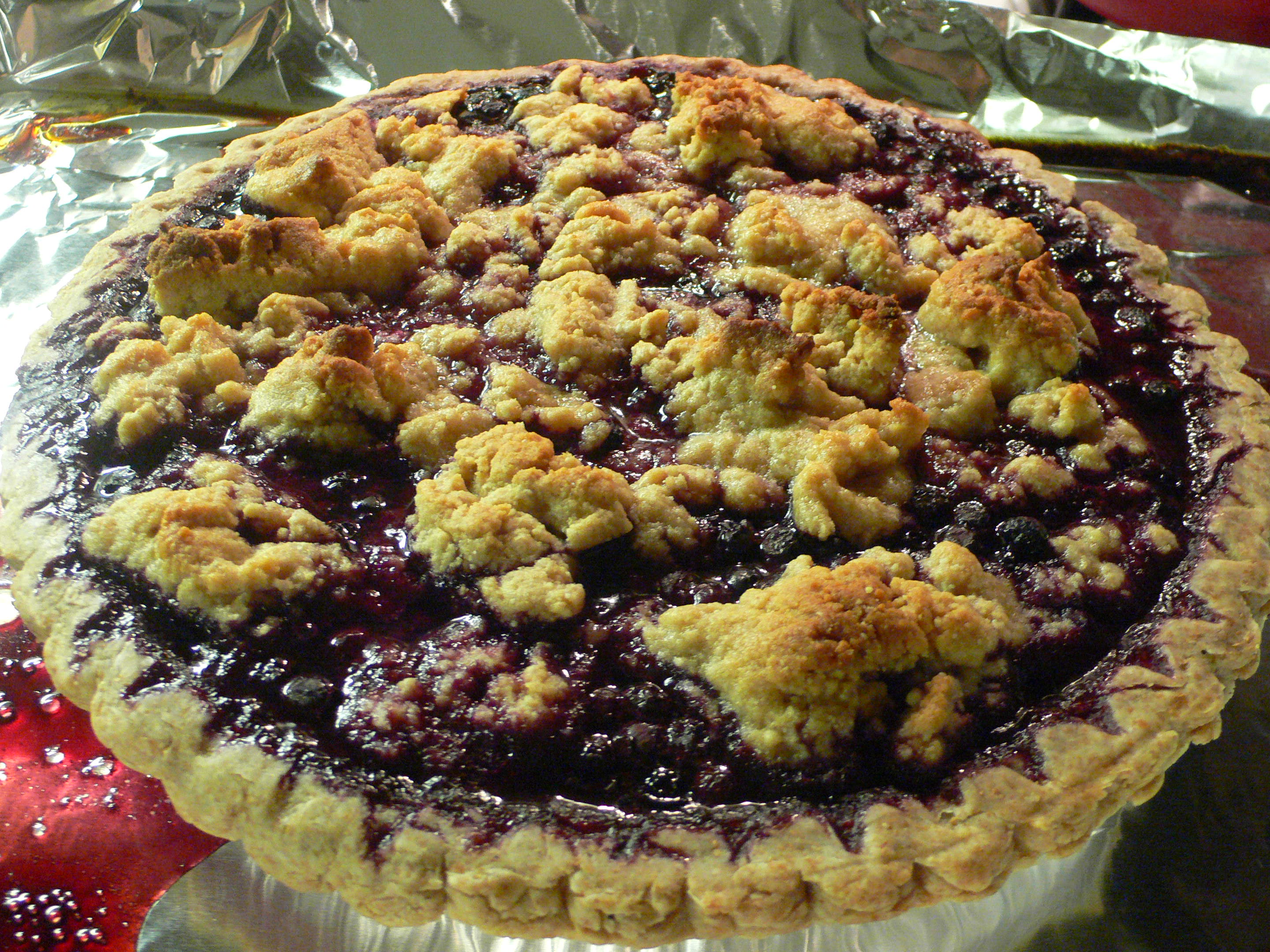 From Baking with Agave Nectar. I used a premade whole wheat crust. Sue me.